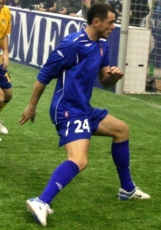 Mateusz Kowalski